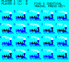 Screen shot of COMX game 'Trainspotting'